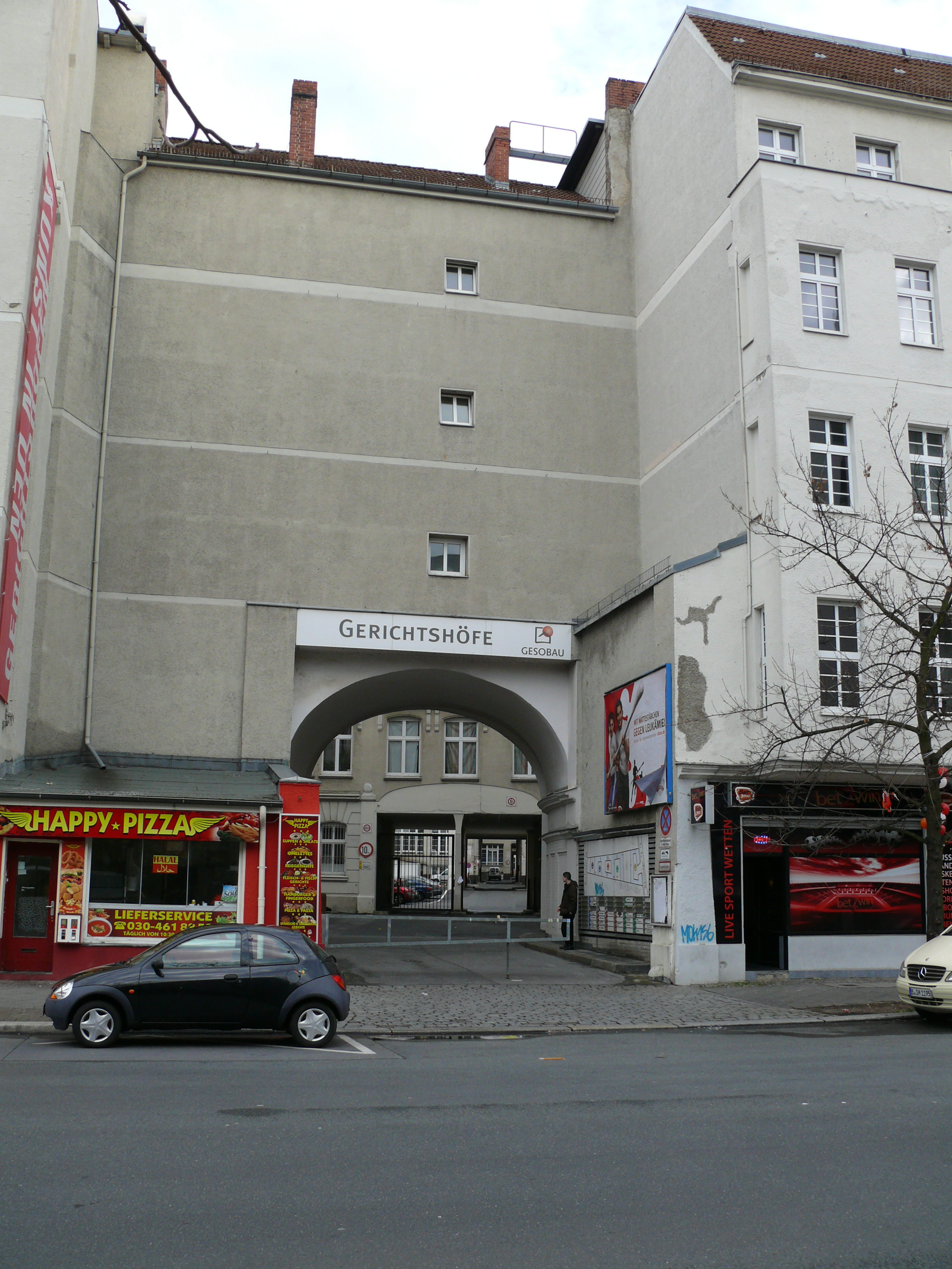 Berlin-Gesundbrunnen Gerichtstraße "Gerichts-Höfe"